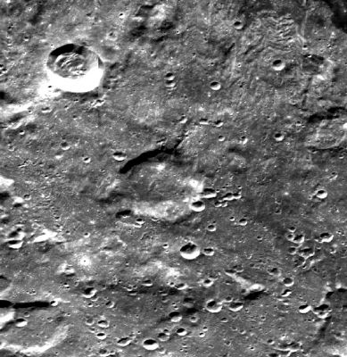 Crater De Roy at the center, upper left corner Chadwick crater